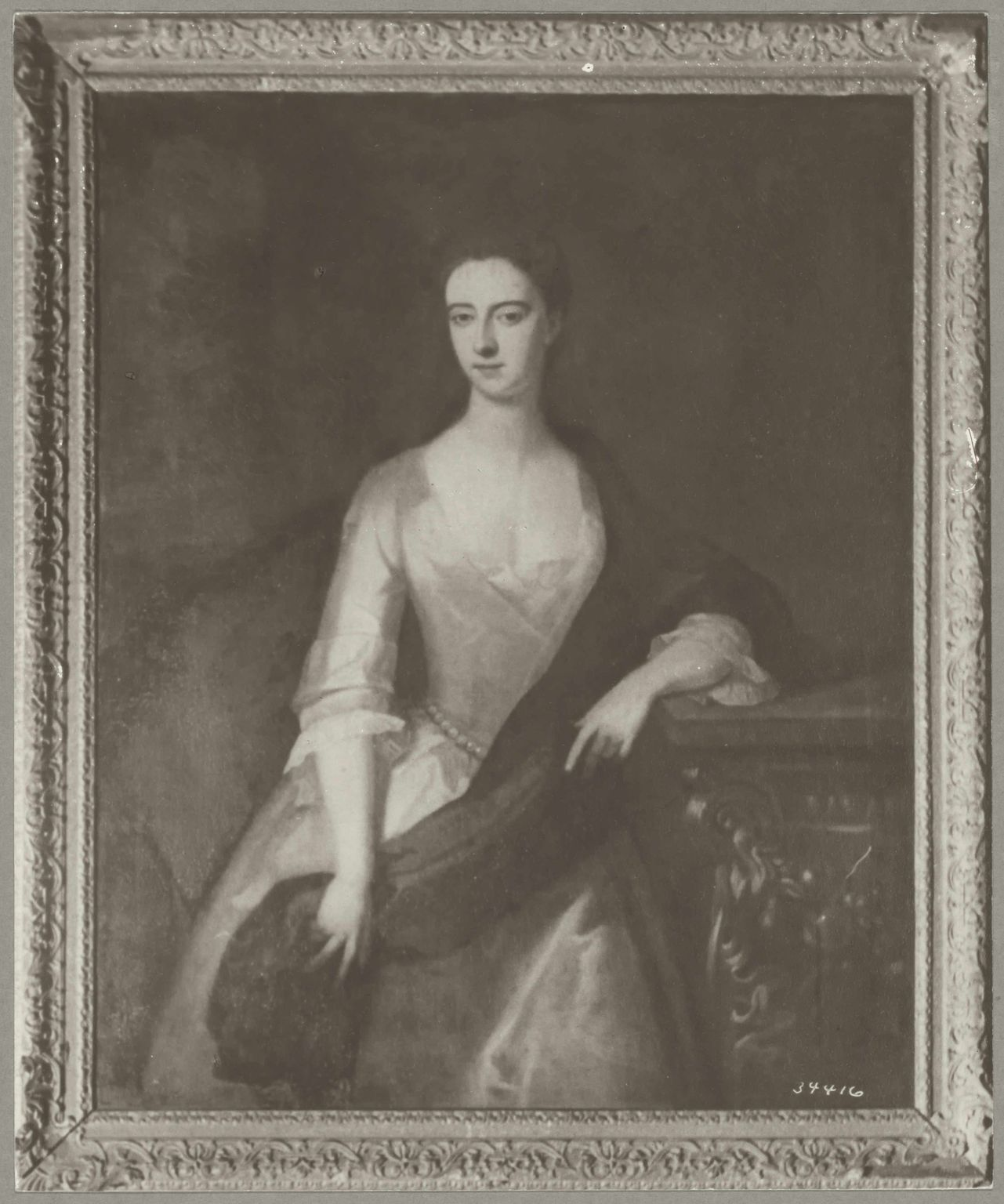 Title:Mrs. Thomas Bladen (Barbara Janssen). Author/Artist:Anonymous, British School, active 18th century. Creation Date:c. 1730-1735 57 x 46 1/2 in. oil on canvas.